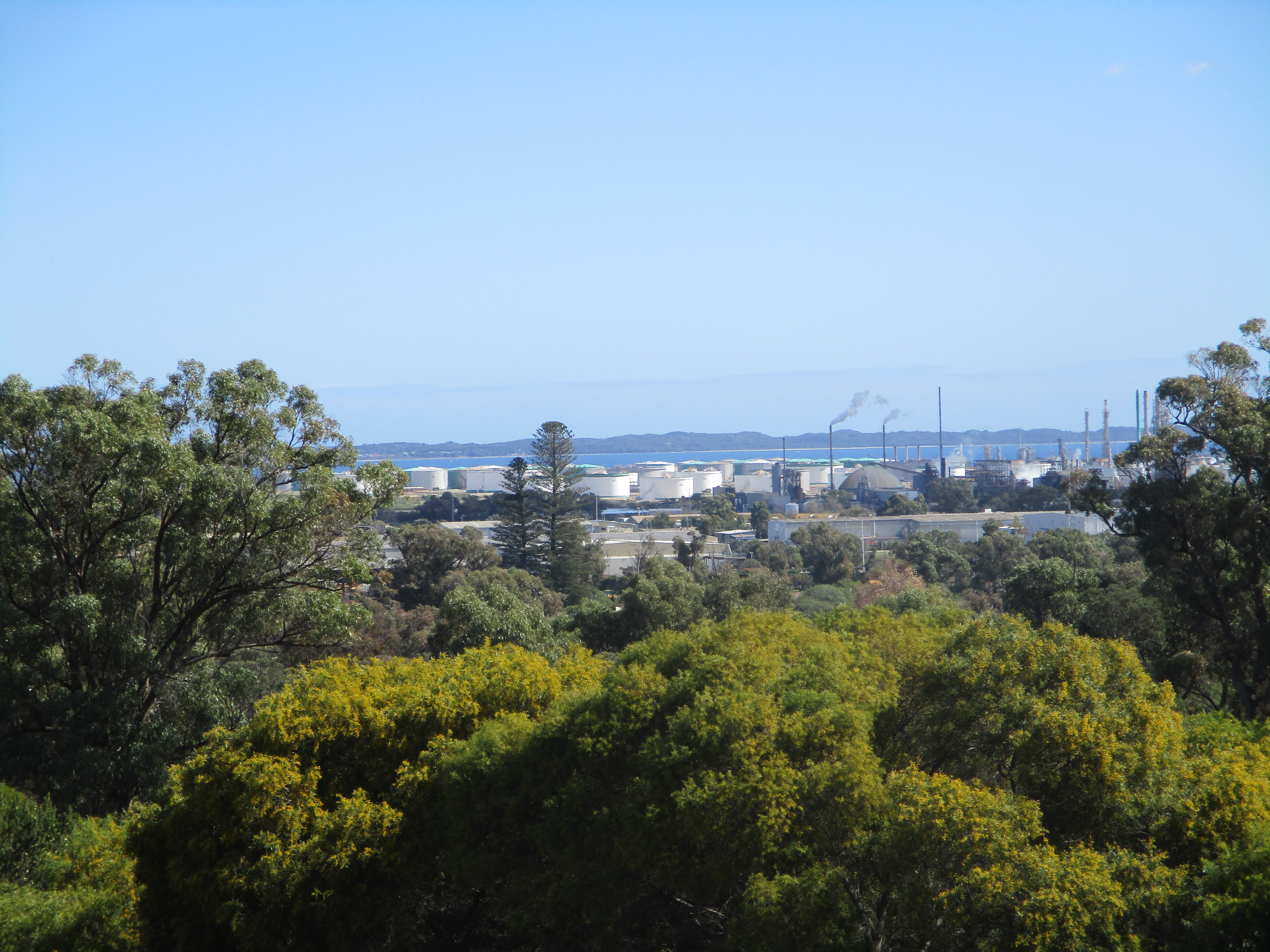 Chalk Hill Lookout at Medina, Western Australia: The view west towards the Kwinana Strip at Kwinana Beach, with Garden Island in the background.